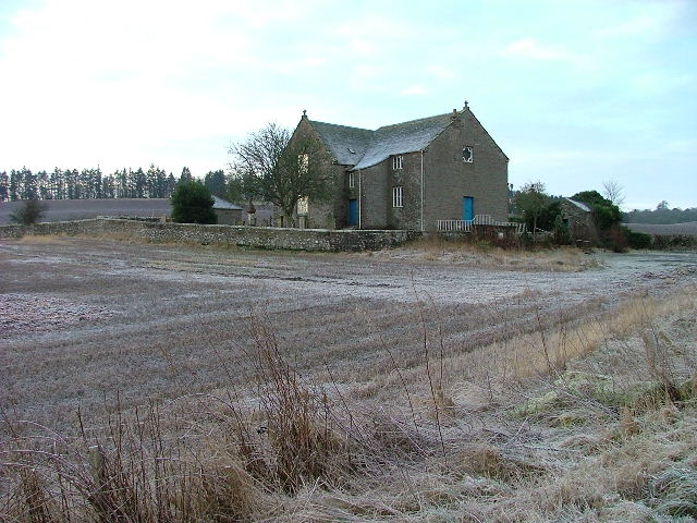 Redgorton Parish Church